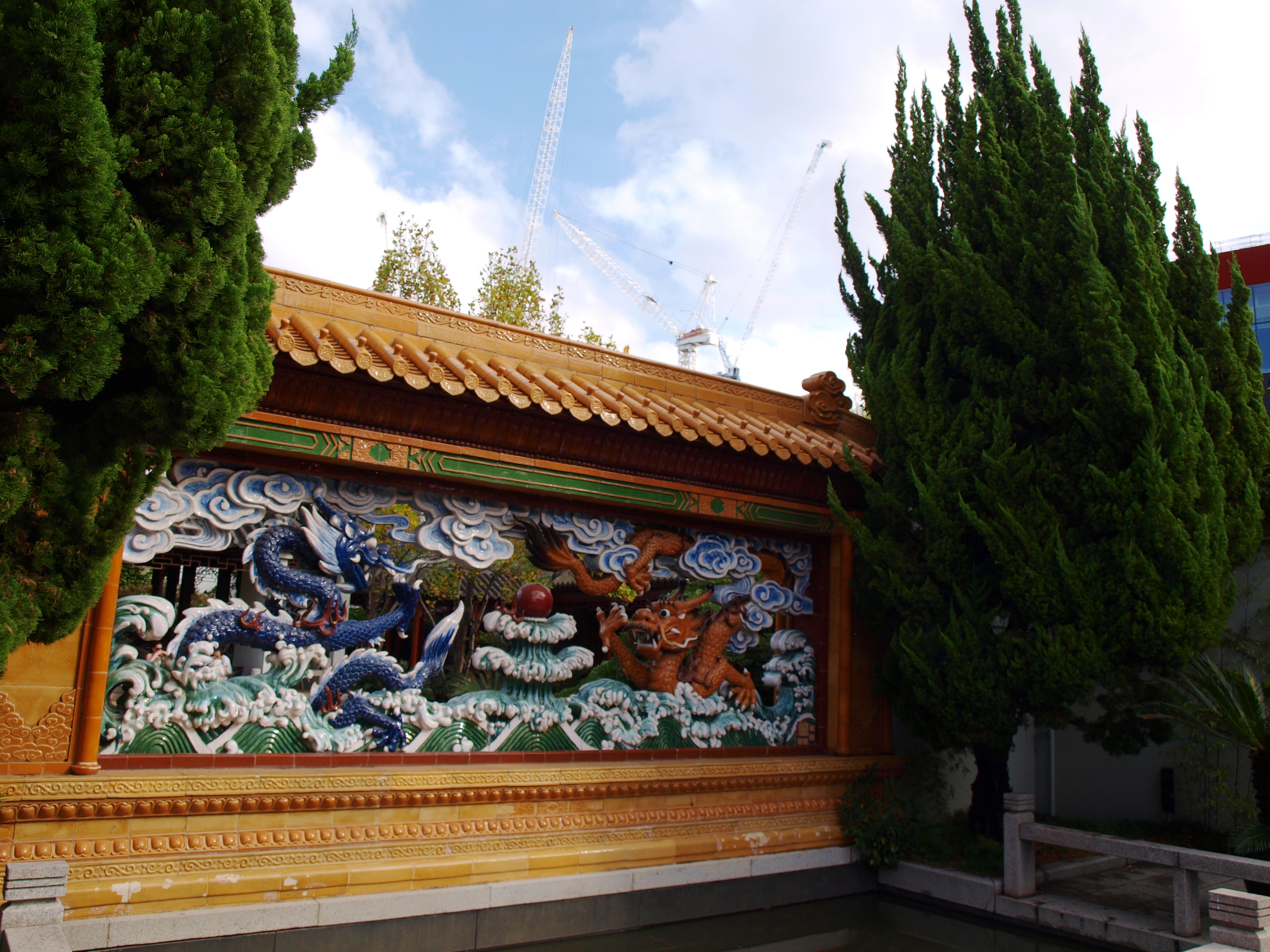 Chinese Garden of Friendship, Sydney